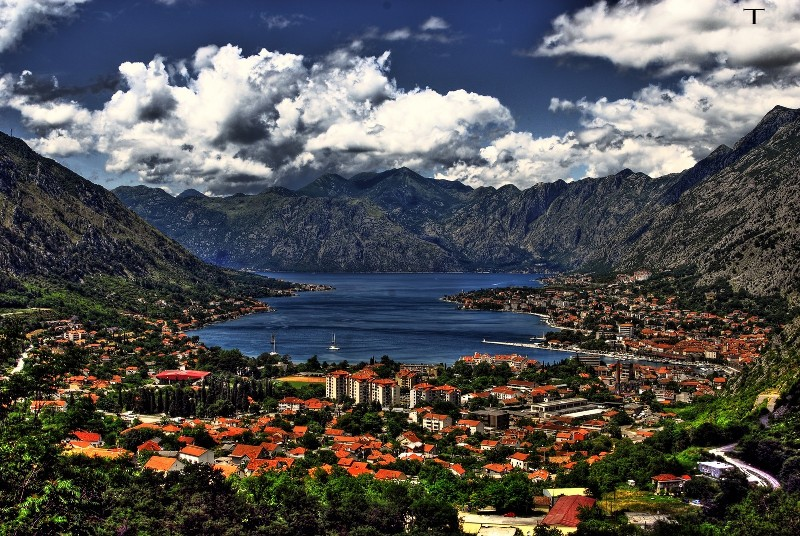 kotor bay